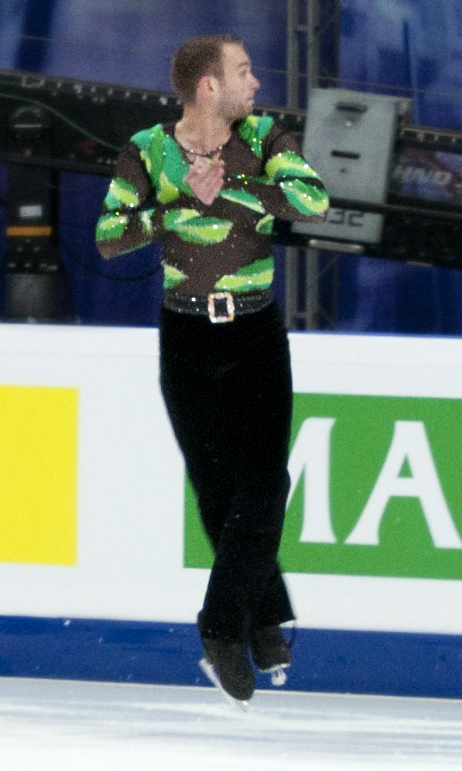 2011 World Figure Skating Championships, free skating.